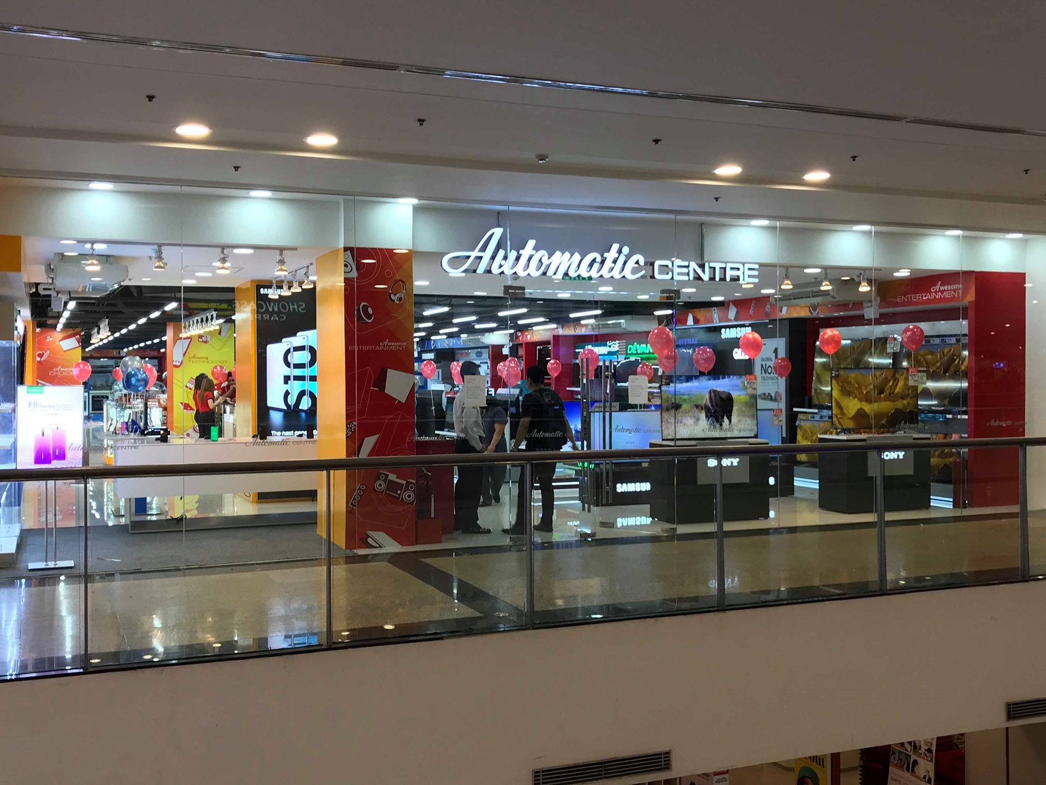 Automatic Centre store facade in Glorietta 1, Makati